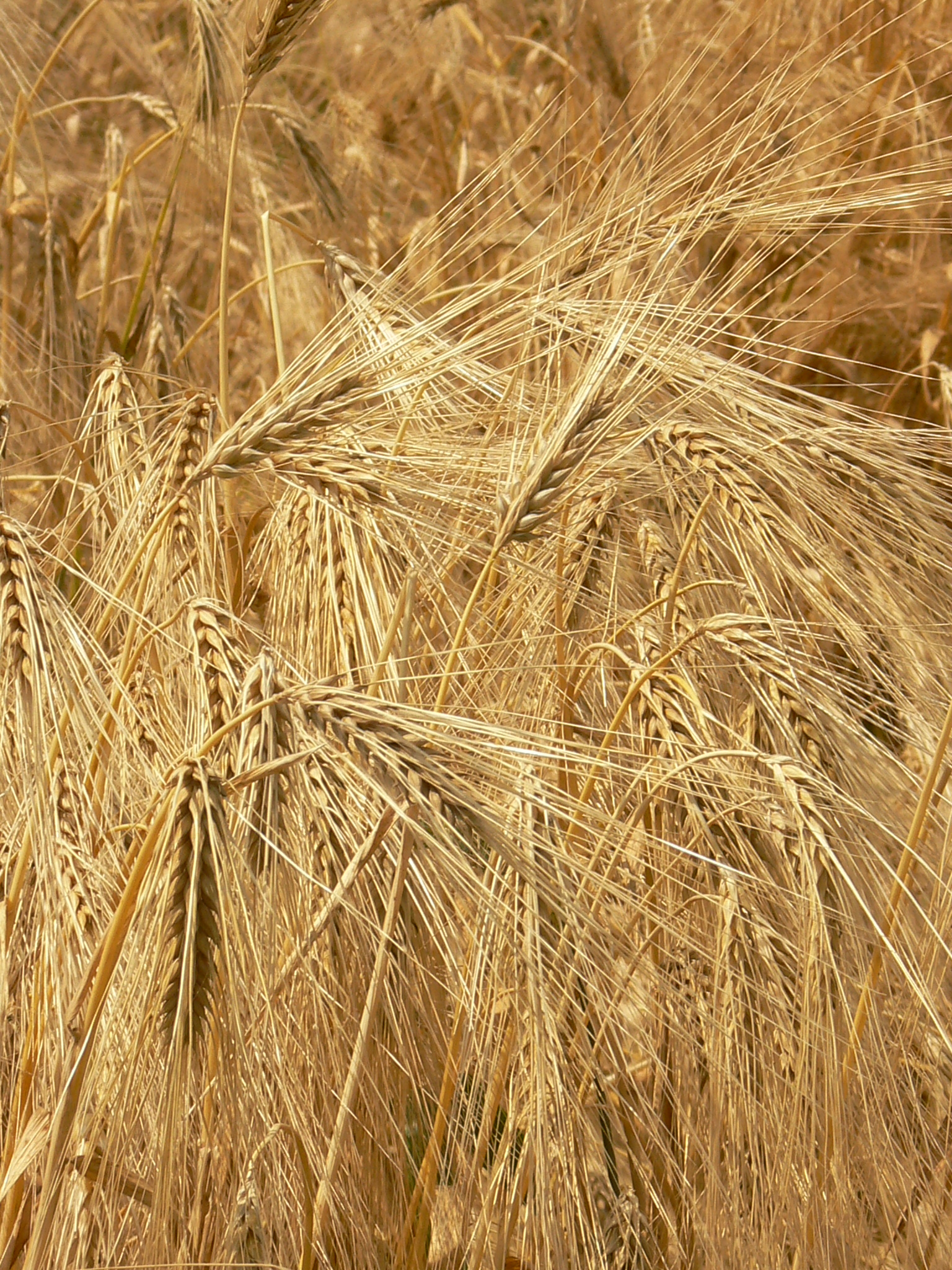 Hordeum